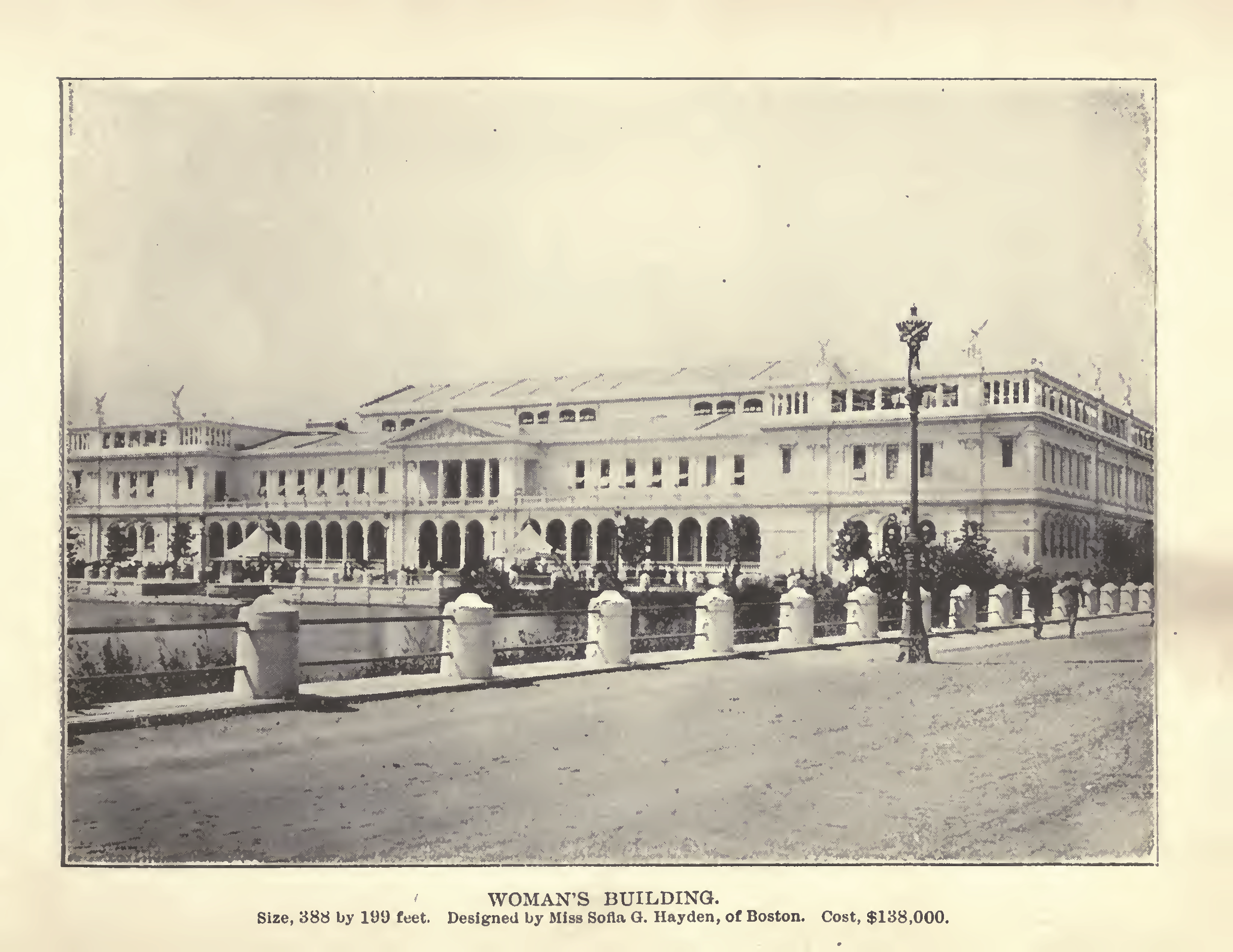 Woman's Building. Size, 388 by 199 feet. Designed by Miss Sophia G. Hayden, of Boston. Cost, $138,000. World's Columbian Exposition (1893 : Chicago, Ill.).